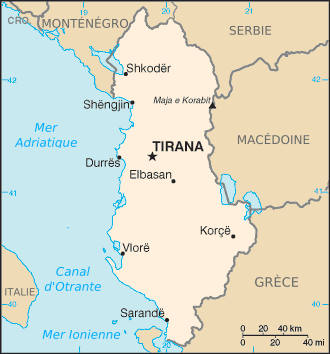 Map in French of Albania